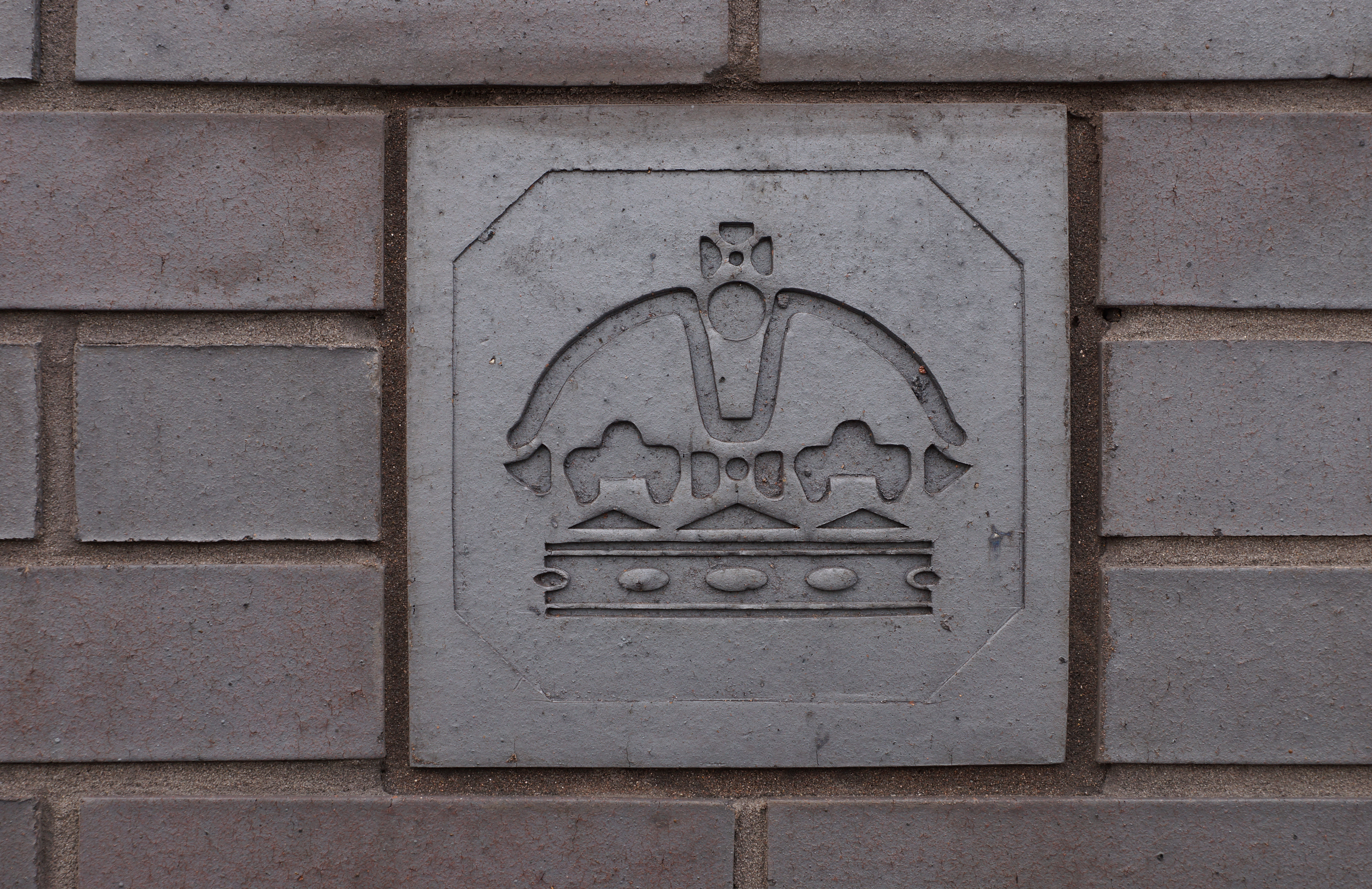 Blue brick crown (gold) "hallmark", one of many, sculpted into the wall on the new Assay Office, Birmingham, opened 2015, which replaces the Victorian Assay Office on Newhall Street, Birmingham, England.